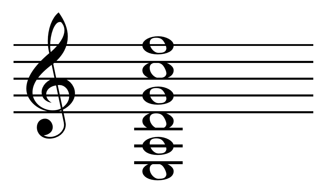 Created by Hyacinth (talk) 21:52, 7 May 2010 using Sibelius 5.